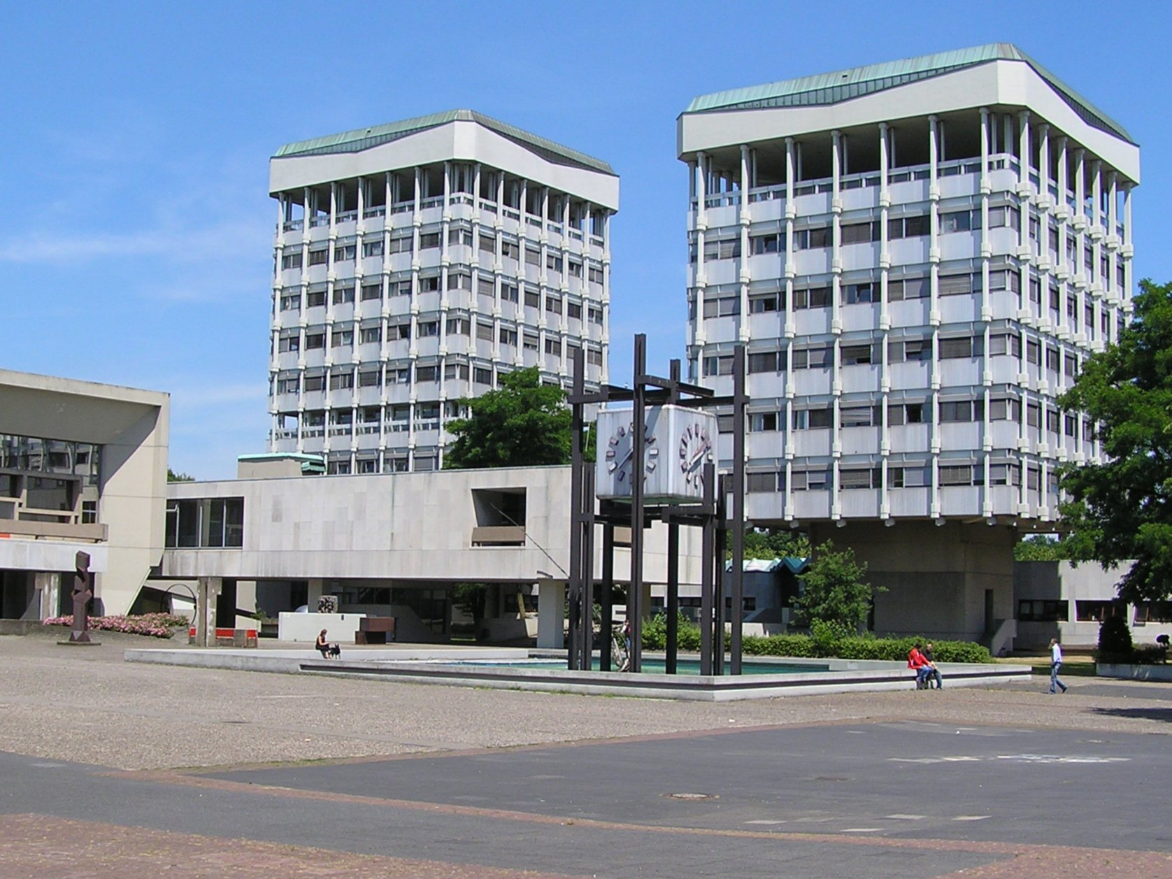 City hall towers of Marl, Germany